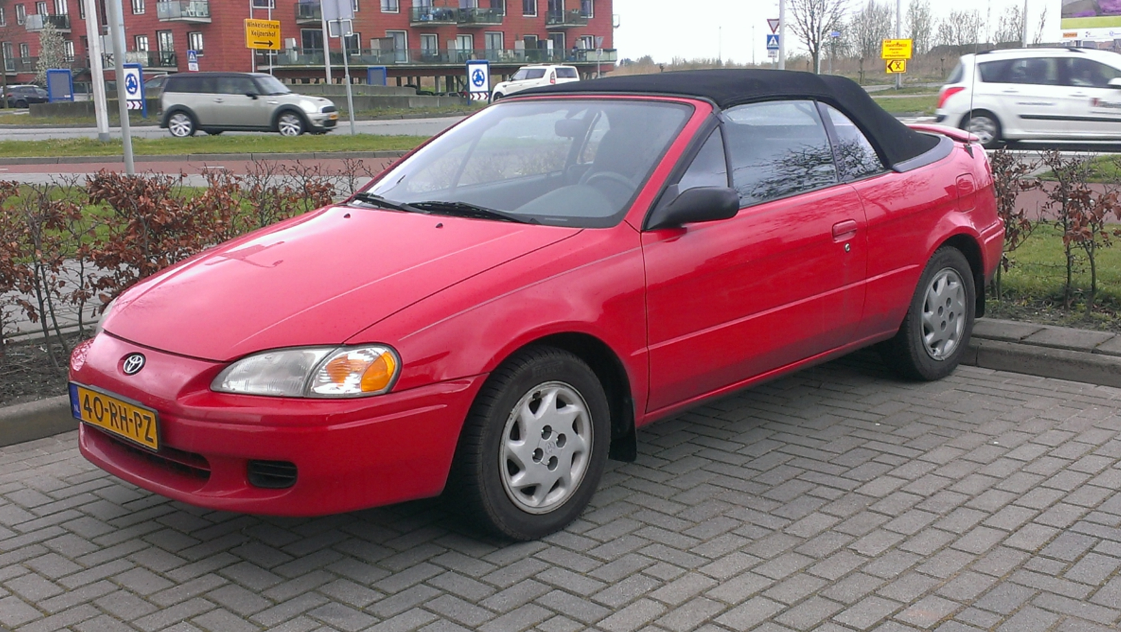 An US-spec Toyota Paseo Convertible imported to the Netherlands